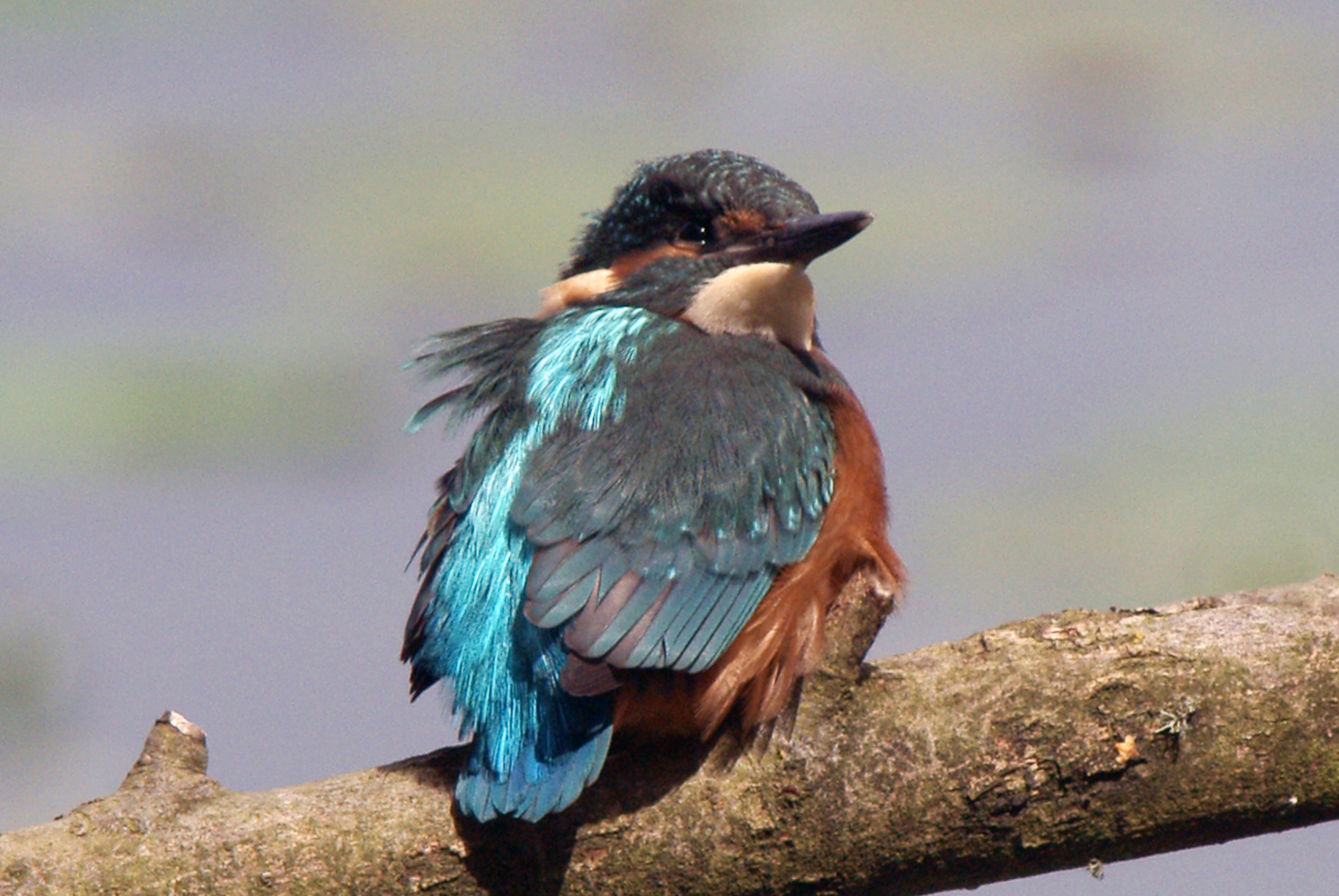 Young Kingfisher, Mere Sands Wood, July 2009. Taken in Rufford, England